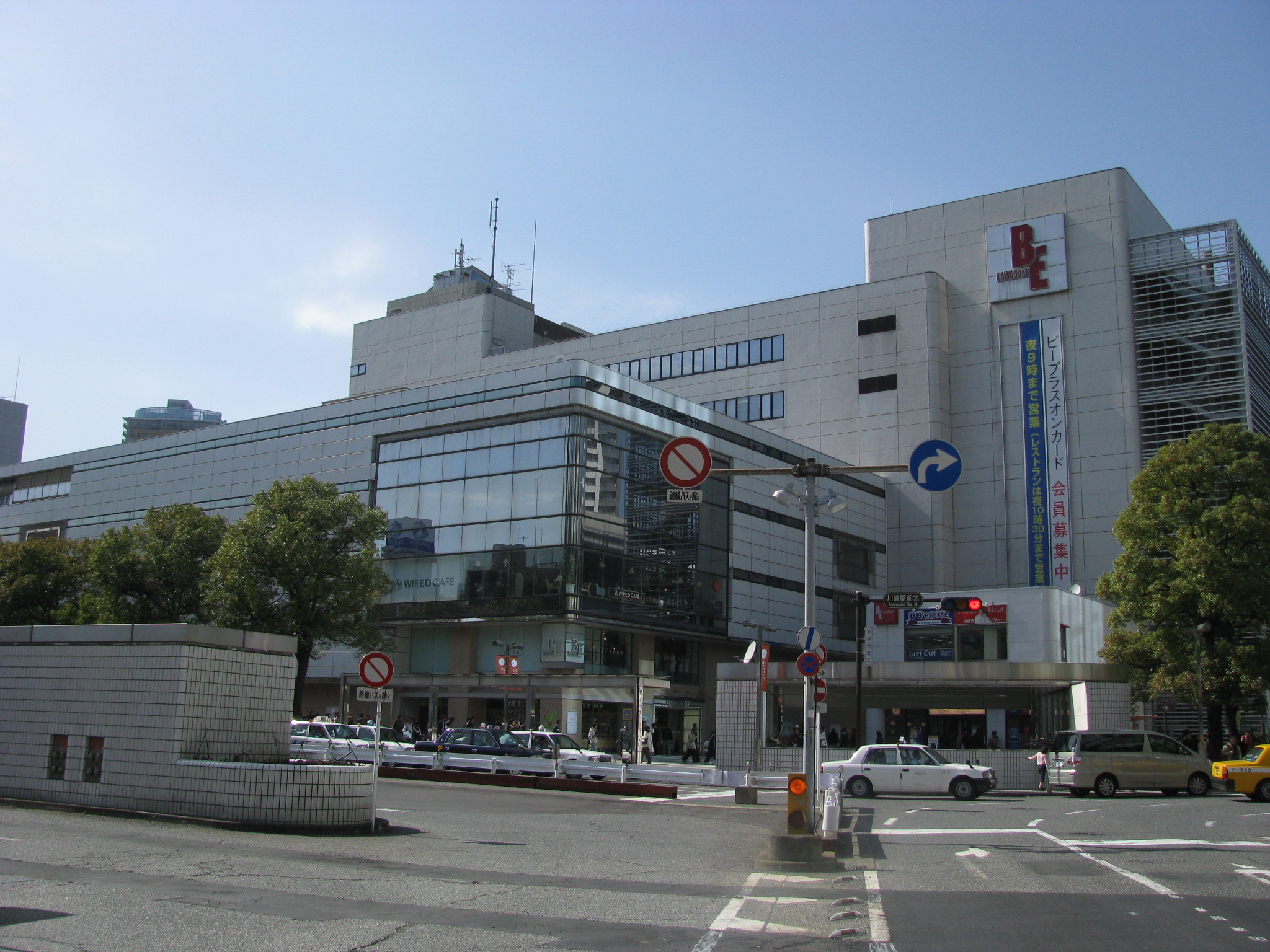 The Kawasaki Station Building, located in Kawasaki, Kanagawa, Japan.